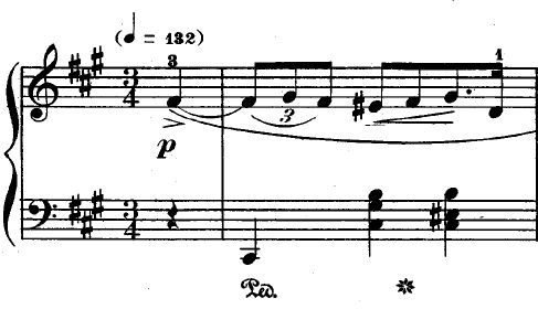 Chopin's Mazurka Op. 6 No. 1